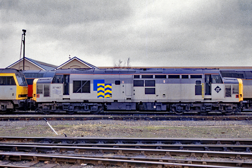 37 667, Class 37/5 at Eastleigh in Trainload Freight triple grey livery with petroleum sector branding. It has cast double arrows and Cardiff Canton depot plates. Numbering history: D6821, 37121, 37667 Scanned from a Fujichrome 35mm slide.